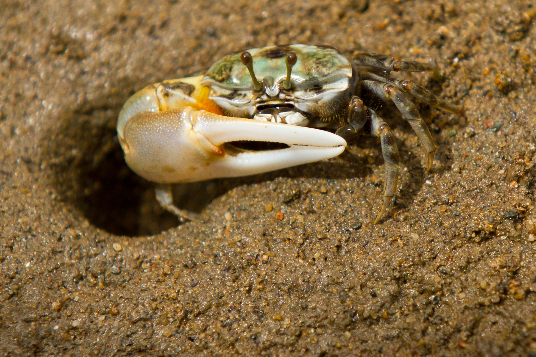 Fiddler crab (Uca vomeris) in mangroves along Brisbane river.